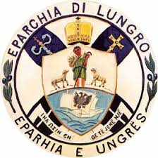 Emblem of the Eparchy of Lungro (Italo-Albanian Church)